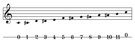 This is the representation of every note in an octave in the current music notation system and its equivalent in the system known as Sonido 13 (as shown in Julián Carrillo's Rectificación Básica al Sistema Musical Clásico), Daniel Acosta, own work